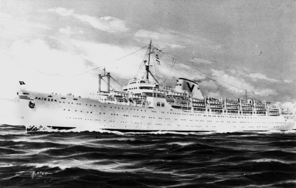 Vlasov group's emigrant ship MV Fairsea, formerly the escort carrier USS Charger (CVE-30)